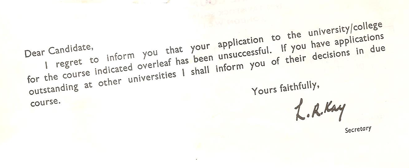 A sample rejection letter from UCCA, carrying Ronald Kay's signature